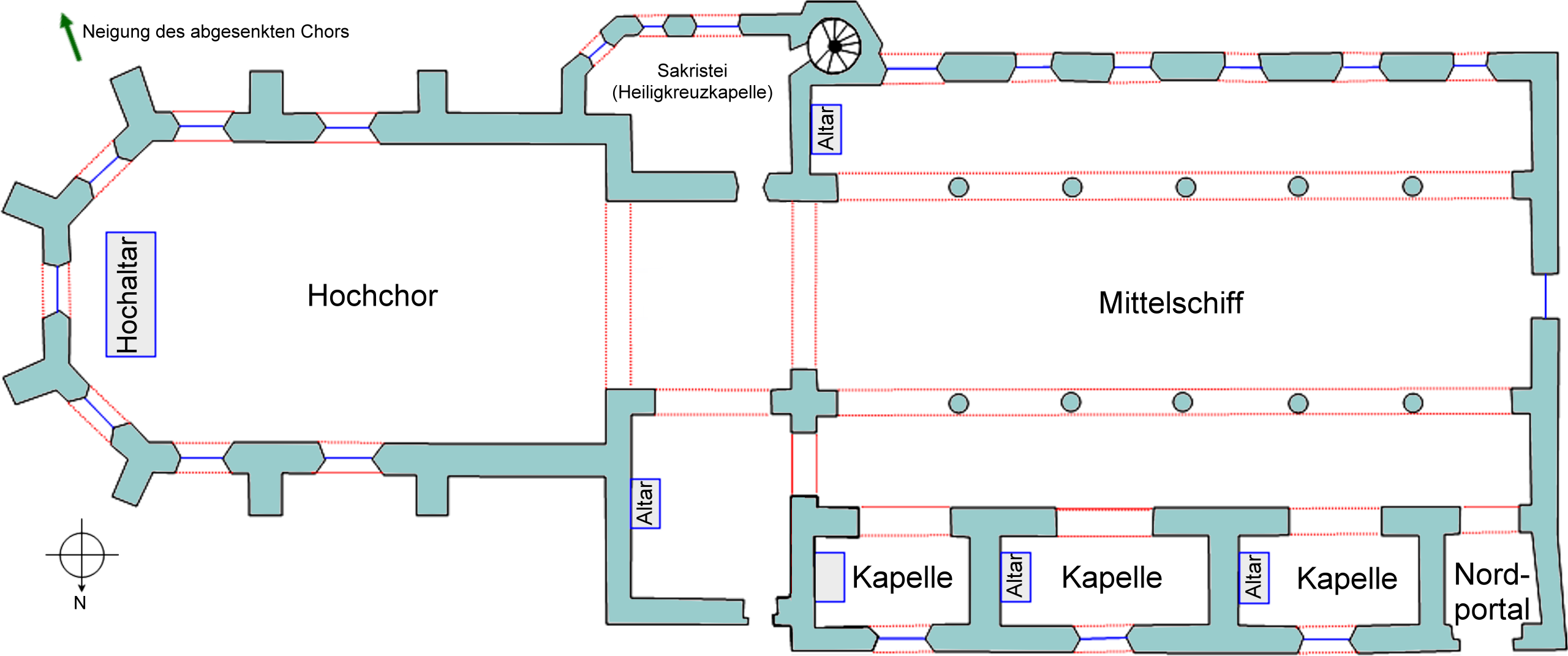 Ground plan of St Justinus Church in Frankfurt-Höchst after its modification in the 15th century